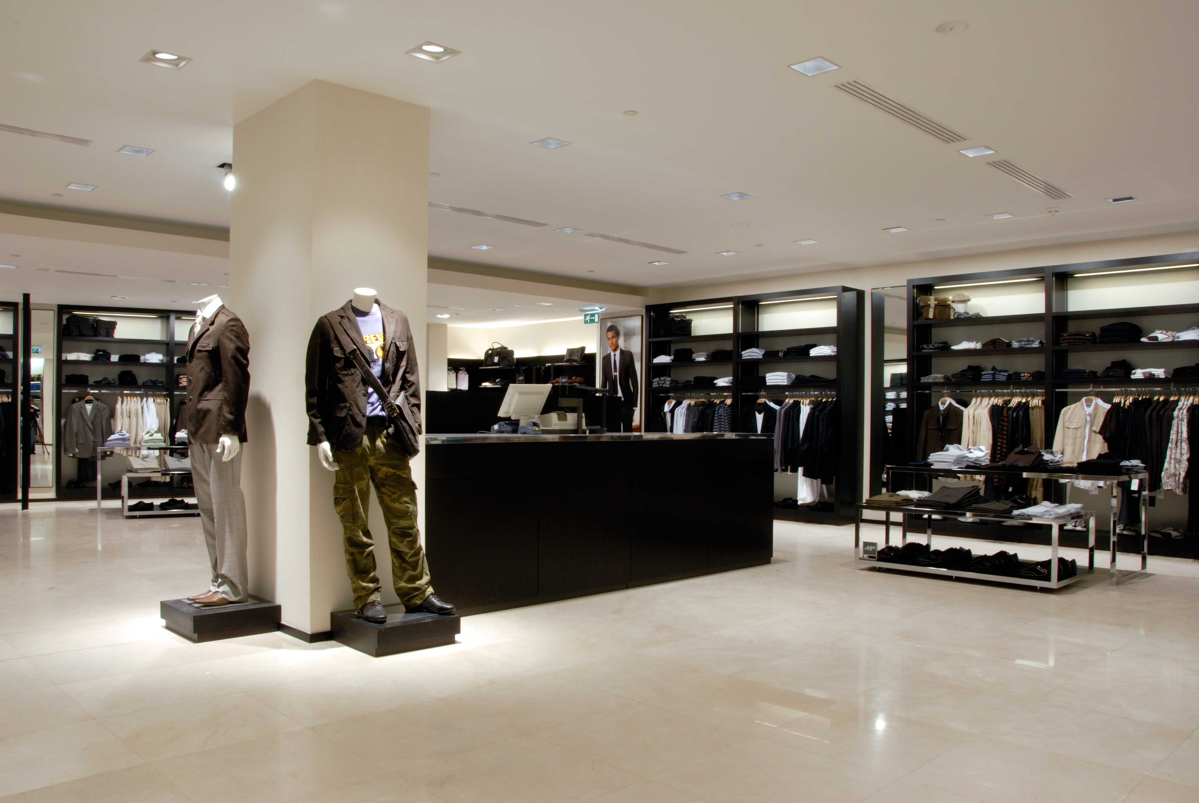 Picture of the Men's Departmet from the ZARA store in Almere, The Netherlands. John Sotomayor was the Menswear manager when this store originally opened in 2007. Photographs of the Almere store were posted by John Sotomayor in 2008.